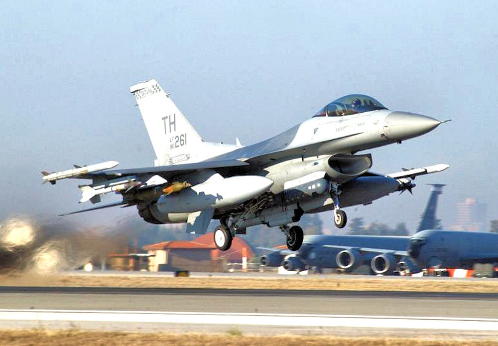 USAF F-16C block 30 #86-0261 from the 113th EFS is operated from Incirlik AB on December 22nd, 2002 during operation Northern Watch just prior to the start of operation Iraqi Freedom. Aircraft retired to AMARC 14 Jul 2010. [USAF photo by SSgt. Jason Gamble]